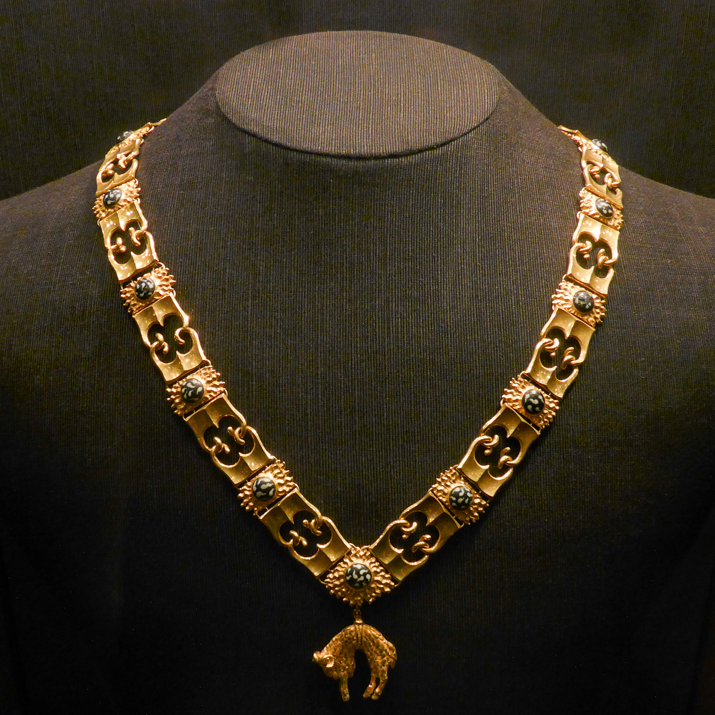 Collar of a Knight of the Order of the Golden Fleece Burgundian-Netherlandish After 1430 Gold, painters enamel Wt 508 g SK Inv. No. XIV 263